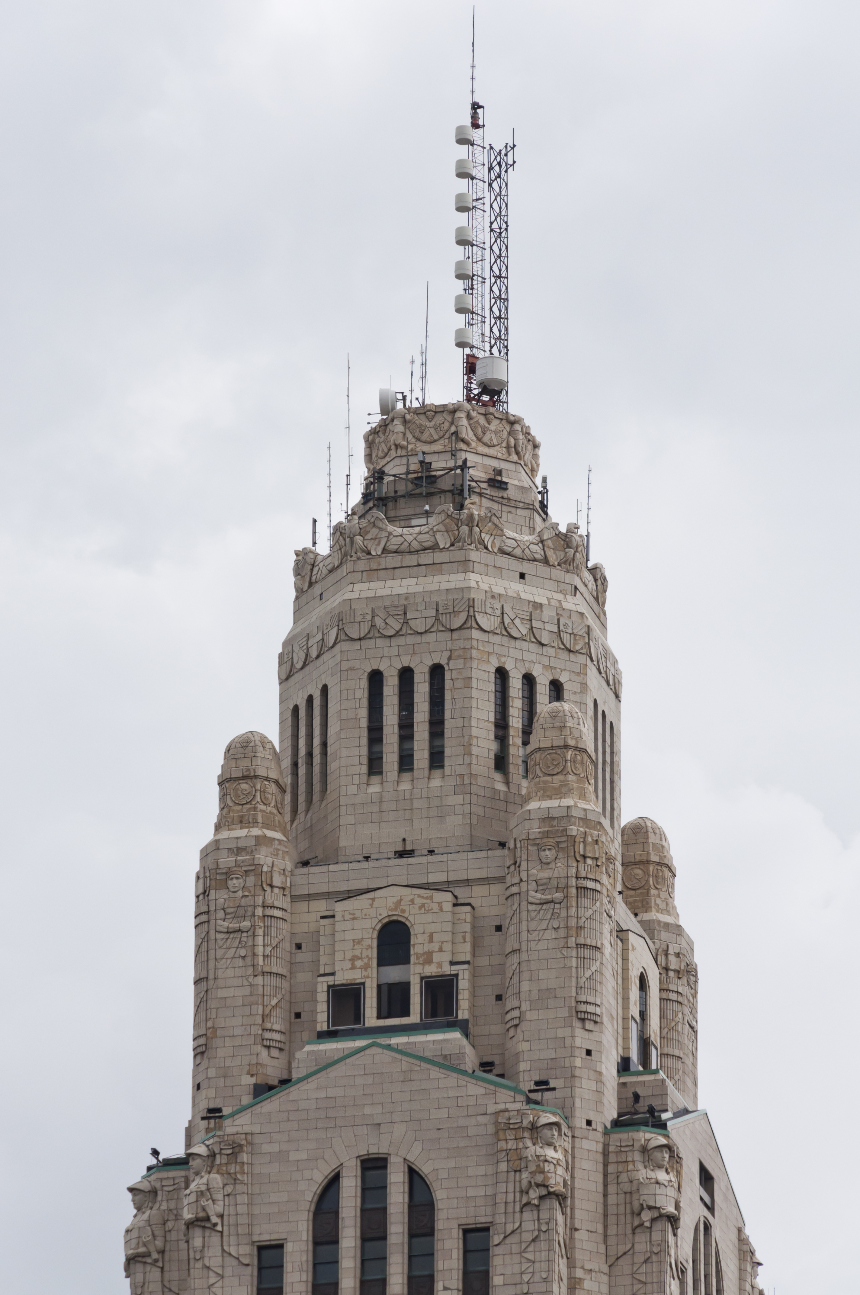 Detail of the Art Deco ornamentation on upper stories of the The LeVeque Tower in Columbus, Ohio